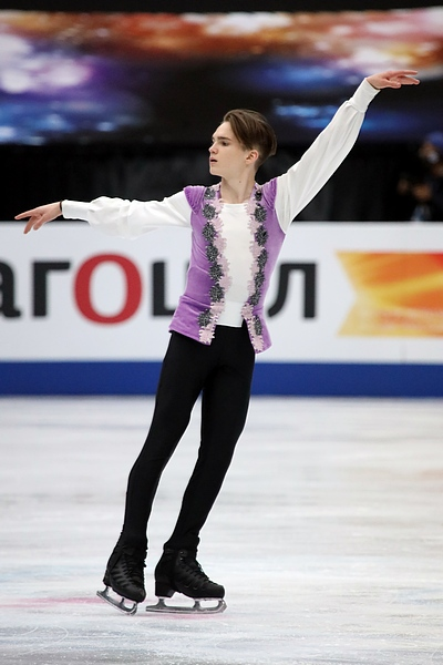 Vladimir Litvintsev at the World Championships 2019